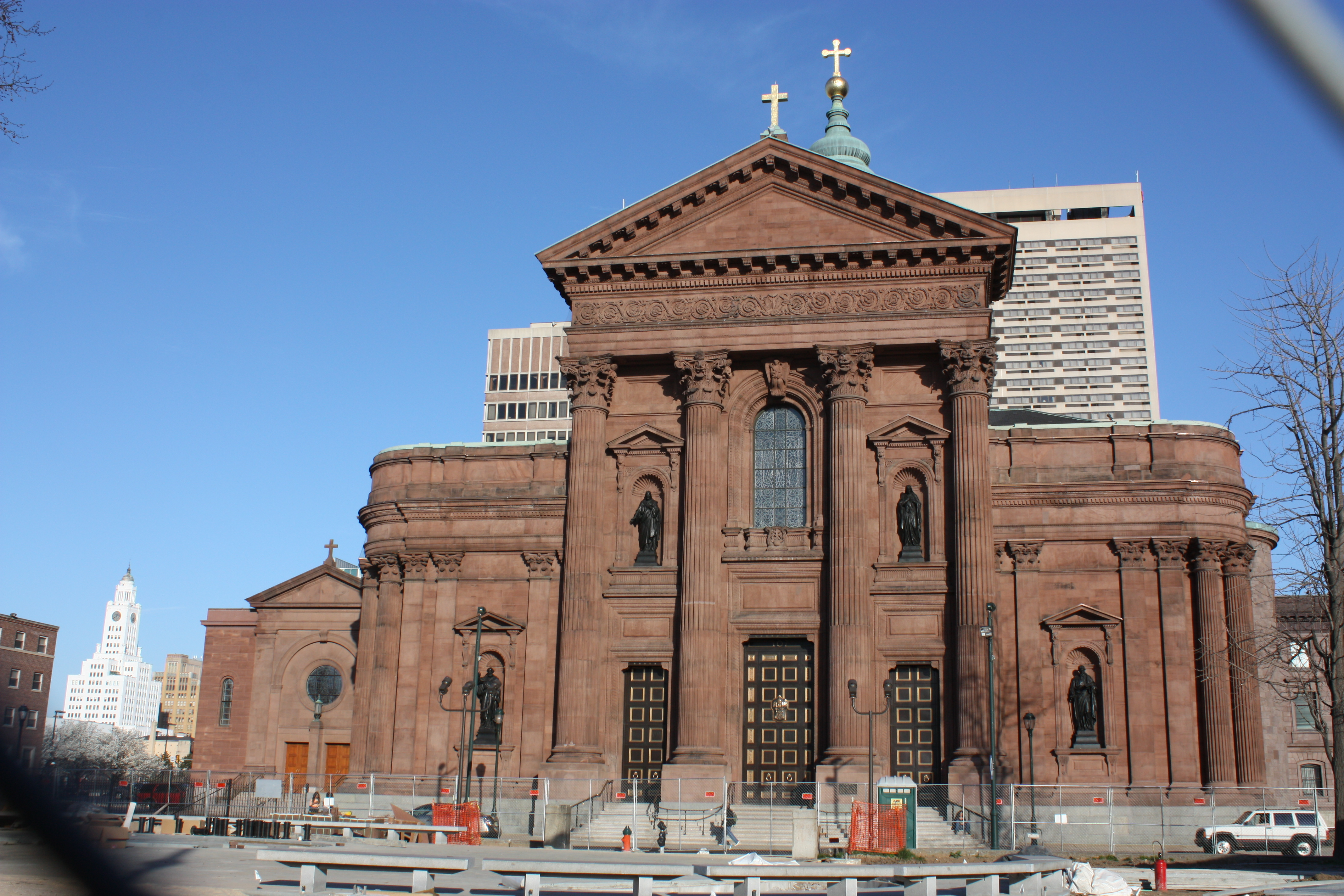 The Cathedral Basilica of Saints Peter and Paul was built between 1846 and 1864 and is located on the east side of Logan Square.